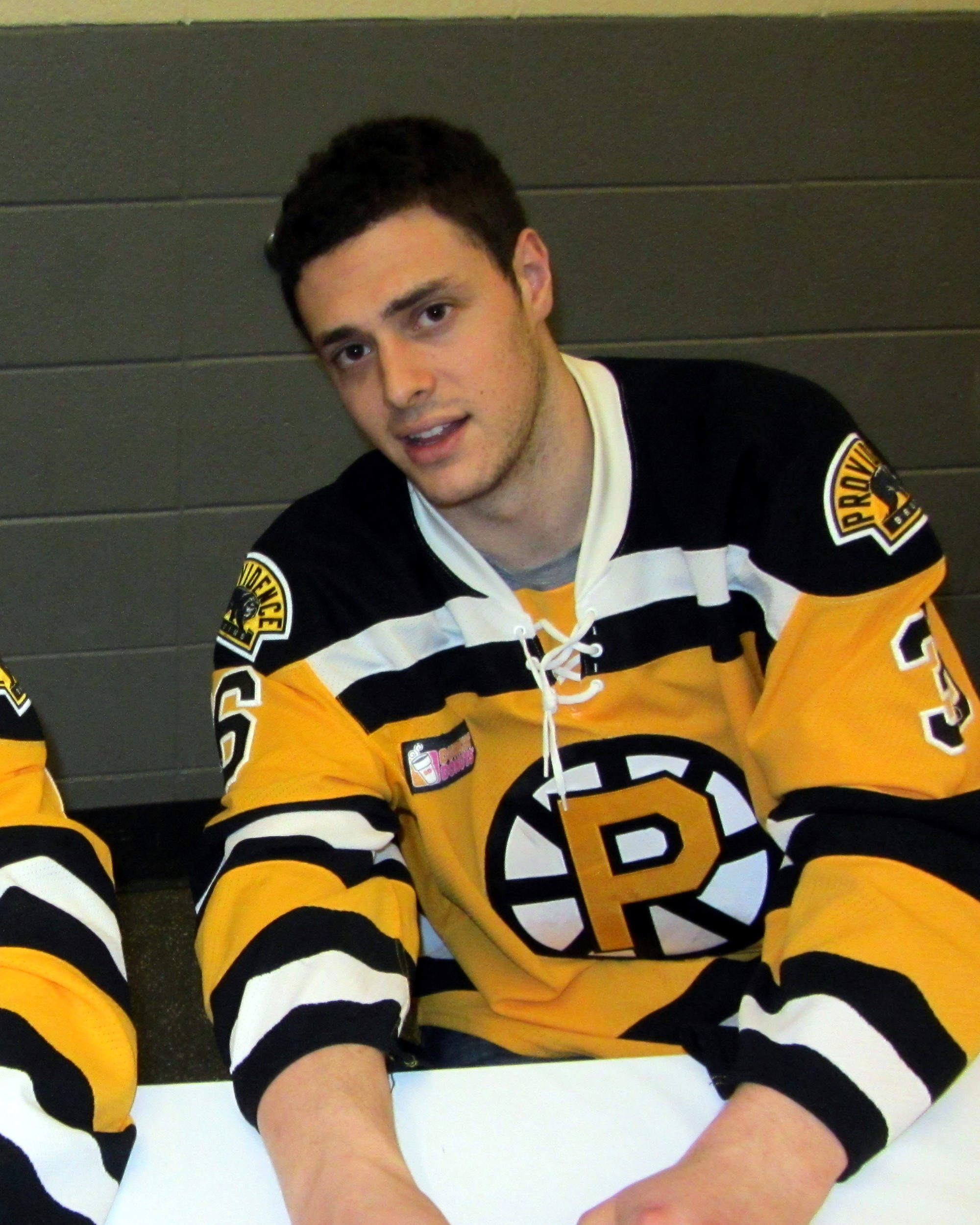 David Warsofsky and Colby Cohen of the Providence Bruins. February 2012.